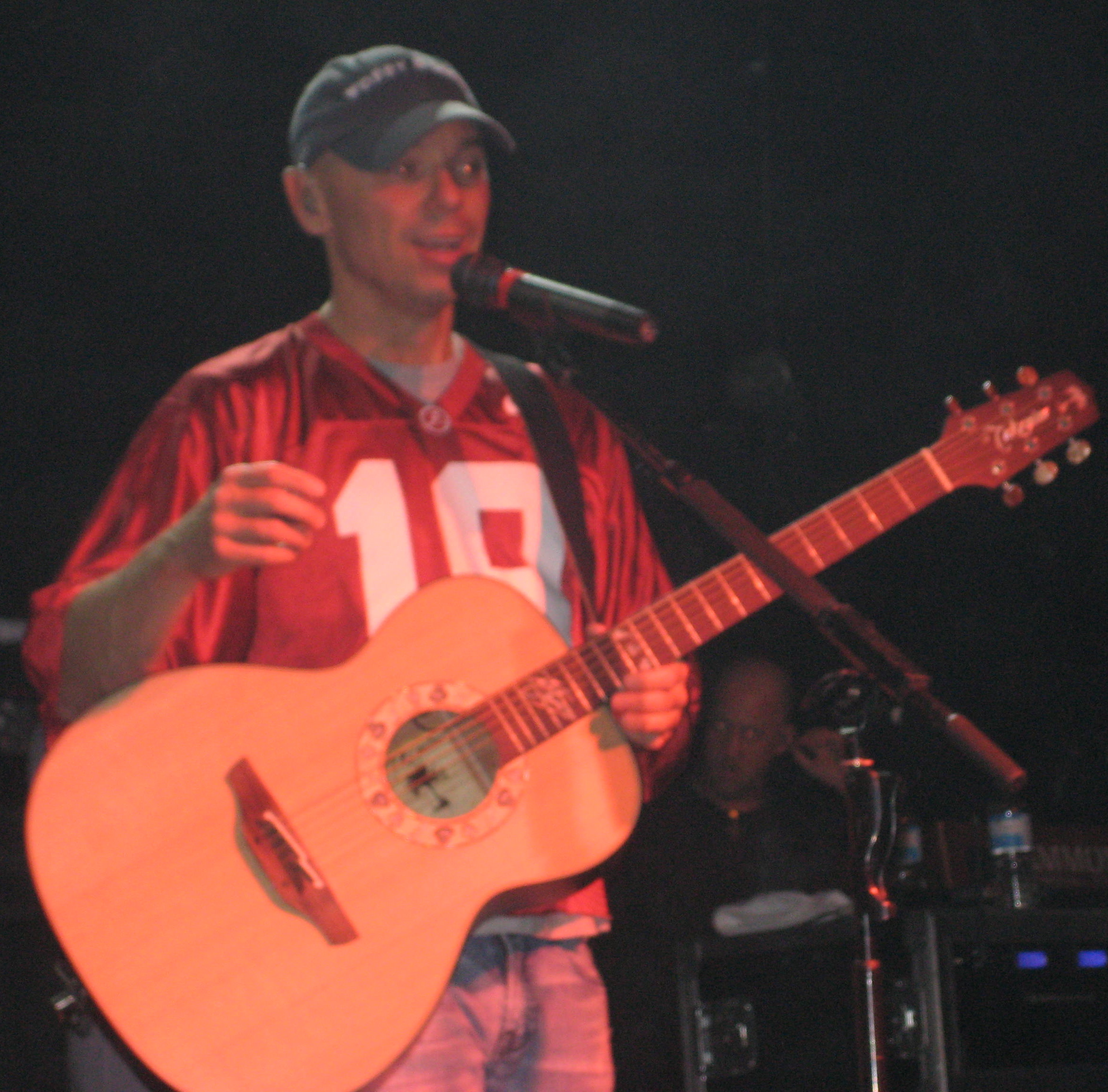 Kenny Chesney performing at the Jupiter Bar and Grill in Tuscaloosa, AL in Spring 2008.